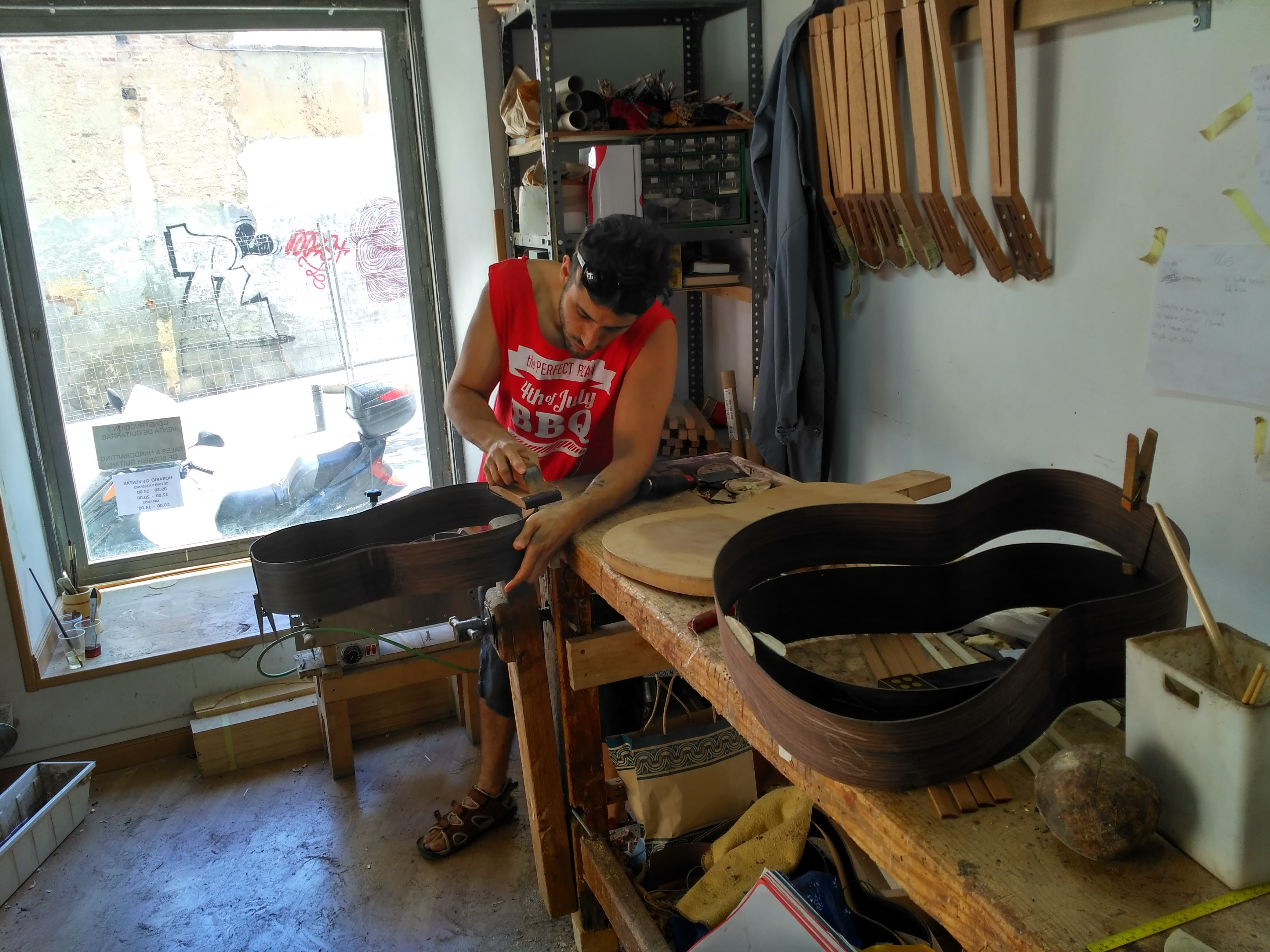 A luthier building classical guitars in Madrid, Spain.